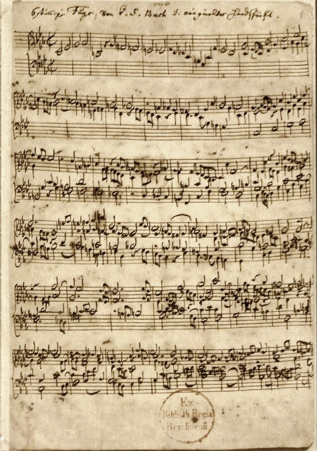 The first page of the manuscript of the "Ricercar a 6" BWV 1079 by Johann Sebastian Bach.